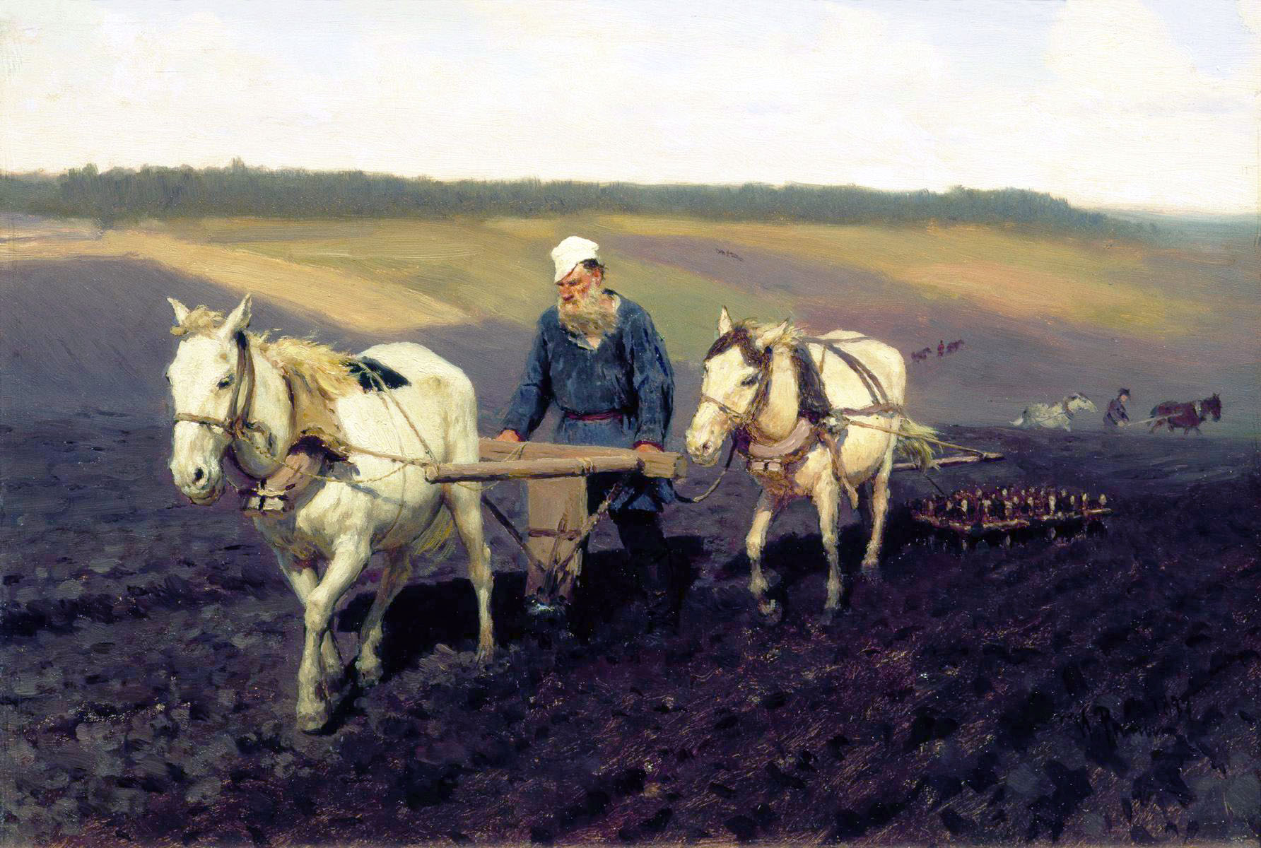 Lev Nikolayevich Tolstoy in the ploughland.